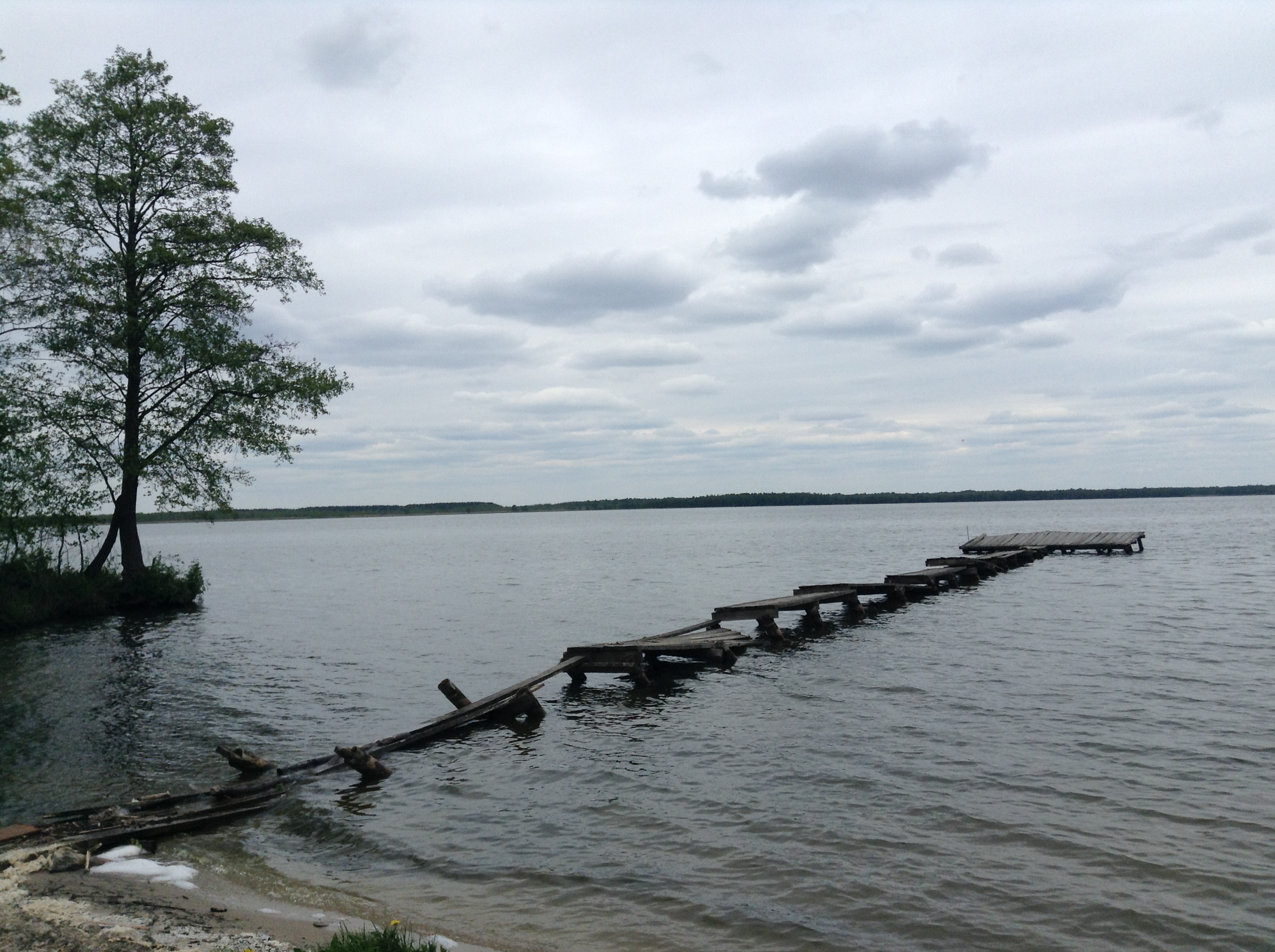 Babrovickaje lake (Brest Region, Belarus)Беларуская (тарашкевіца): Бабровіцкае возера (Івацэвіцкі раён, Берасьцейская вобласьць)